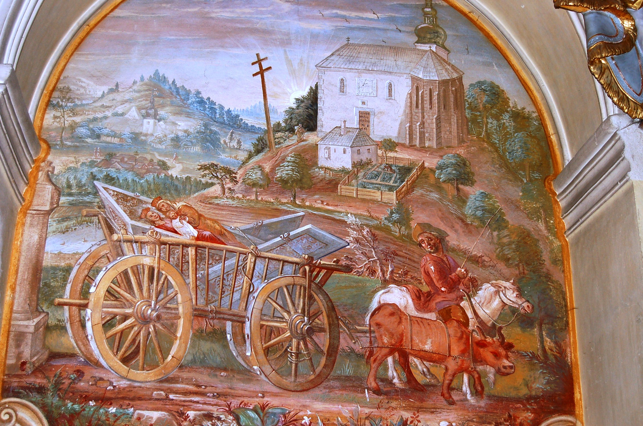 Painting from 1730 by Wenceslas Schmidt in church of St Anne in Planá, Tachov District, Czech Republic. The image depicts a local legend about unsucessful attempt of a peasant to move and keep at his home statues of St Anne and Virgin Mary from this church.